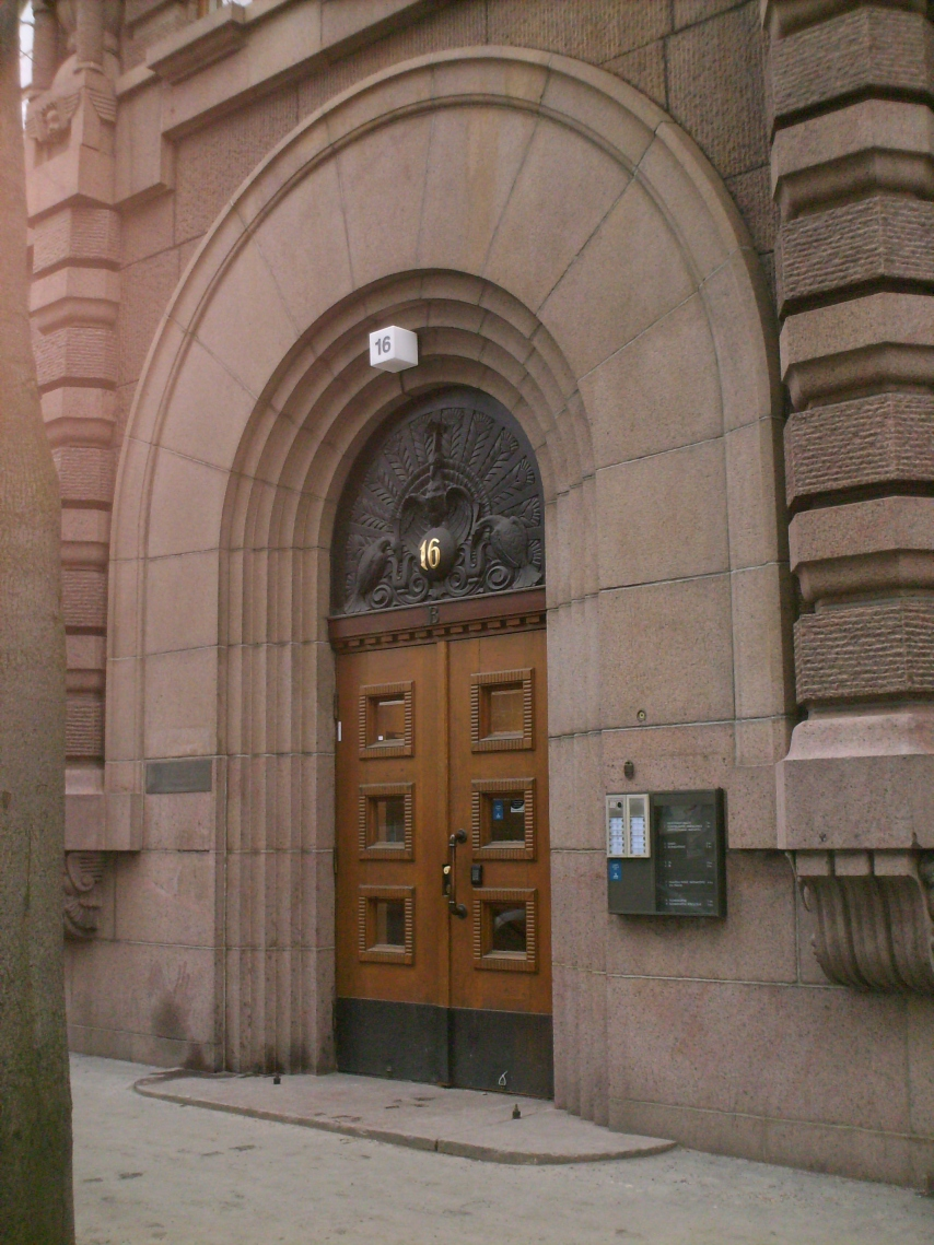 Photograph of the main door at Bulevardi 16, Helsinki (Cathedral chapter building).